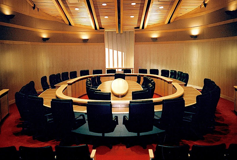 The Chamber housing the Wilp Si'Ayuukhl Nisga'a